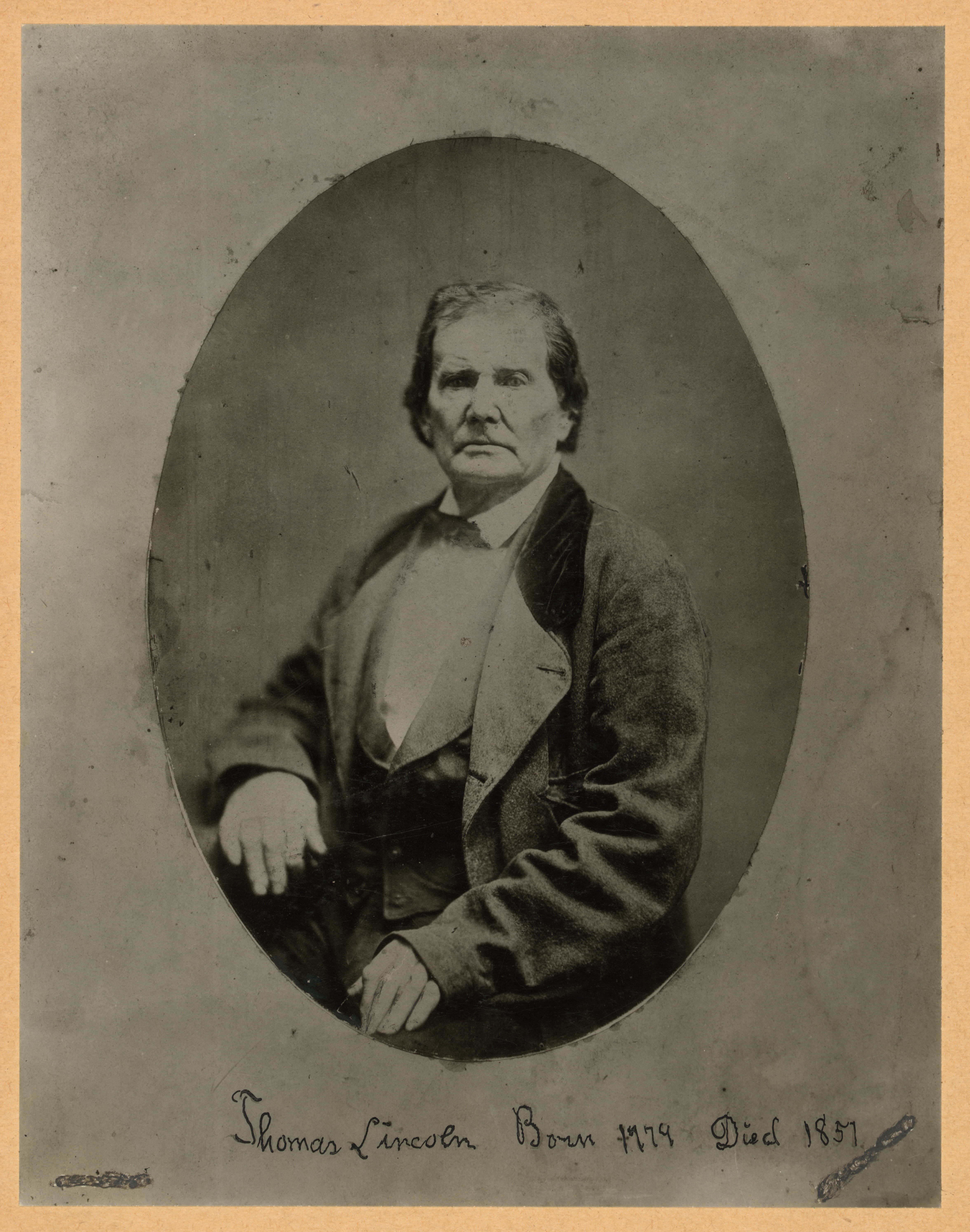 Thomas Herring Lincoln (1778-1851) the father of Abraham Lincoln. This is the only known original and is located in the archives of the (Source) museum.